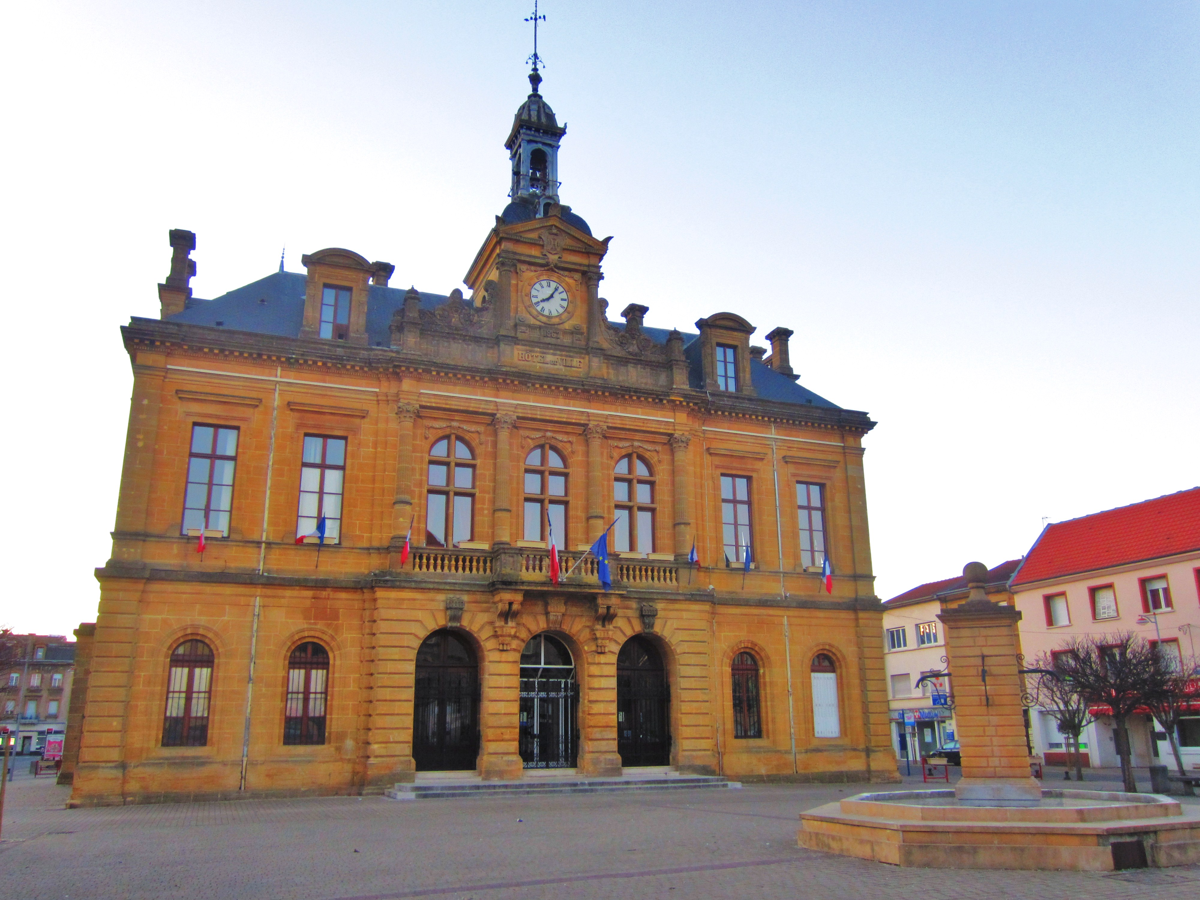 Longuyon town council